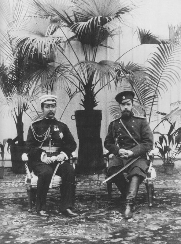 Photograph of King Chulalongkorn of Siam and Tsar Nicholas II of Russia in St. Petersburg in 1897, During King Chulalongkorn's first Grand Tour.